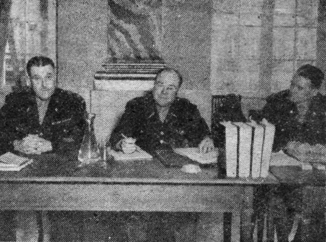 Members of the prosecution staff at the Borkum Island trial in Ludwigsburg are, left to right, Maj. Joseph D. Bryan, Birmingham, Ala.; Capt. John A. May, Aiken, S. C., and Capt. Edward F. Lyons, Jr., Boston, Mass.